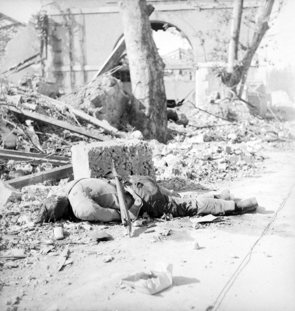 Wehrmacht soldier corpse laying on the streets of Toulon